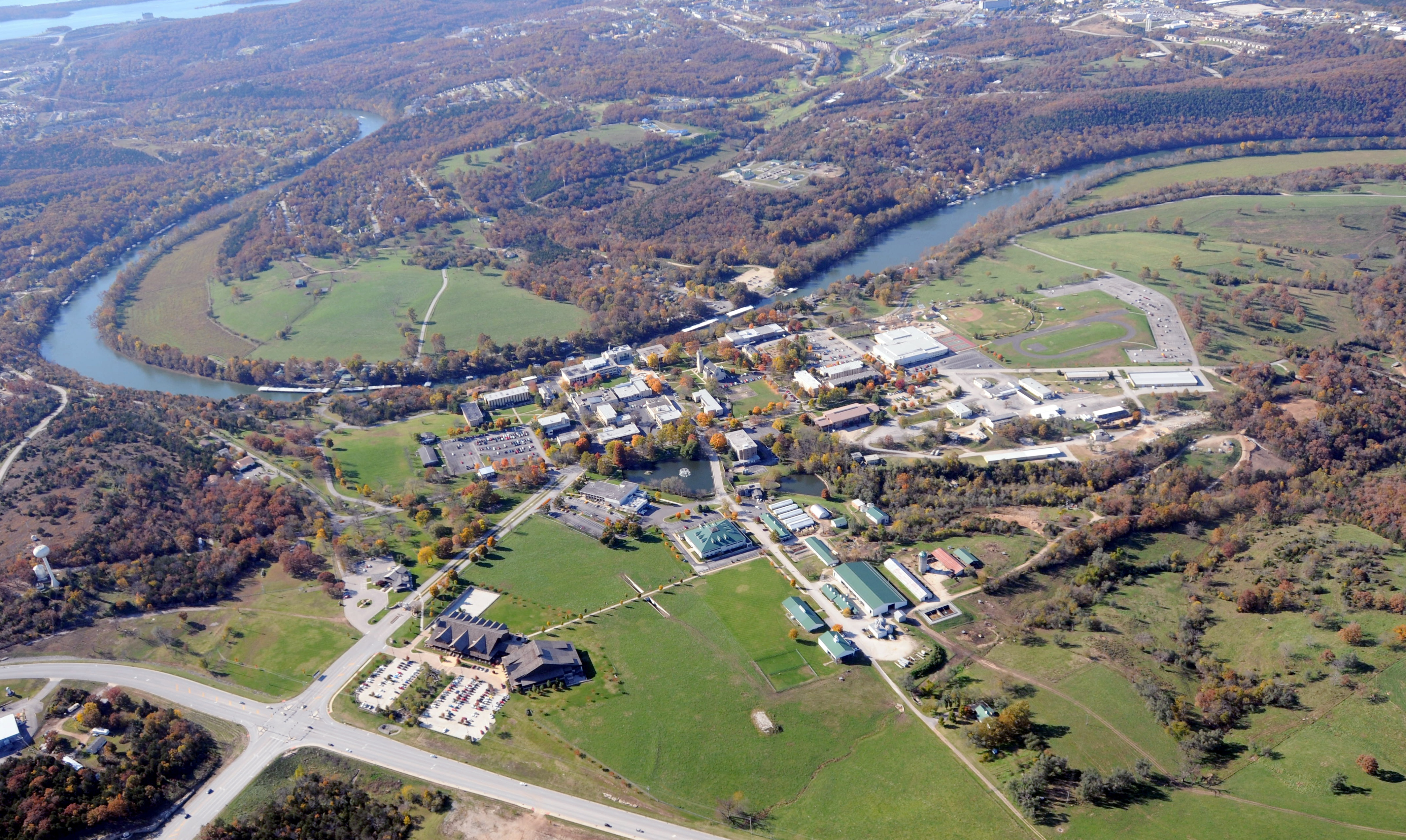 Aerial Photograph of College of the Ozarks Oct 24 2009